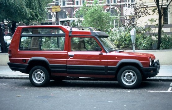 Talbot/Simca-Matra Rancho in profile